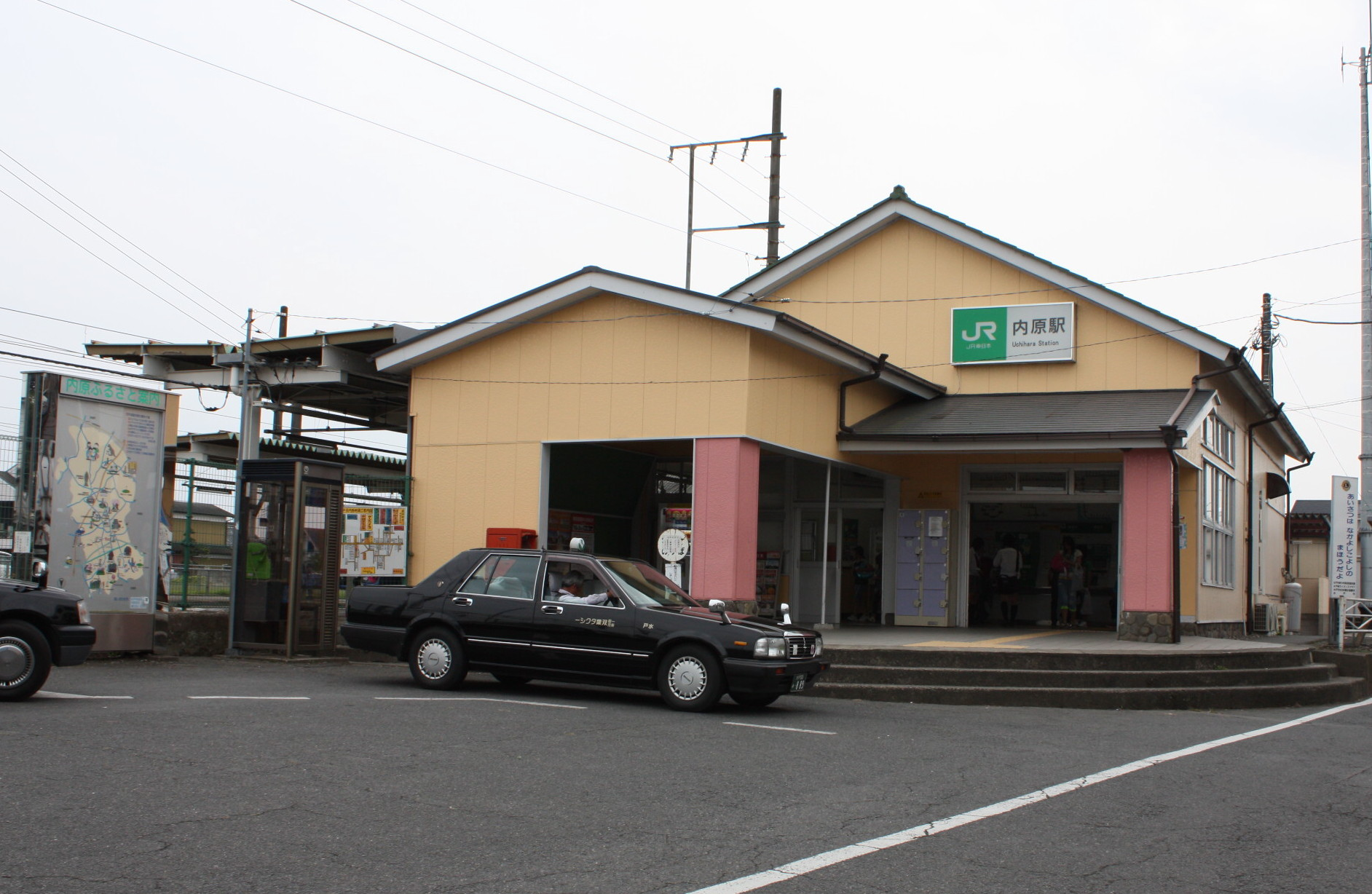 Uchihara Station building